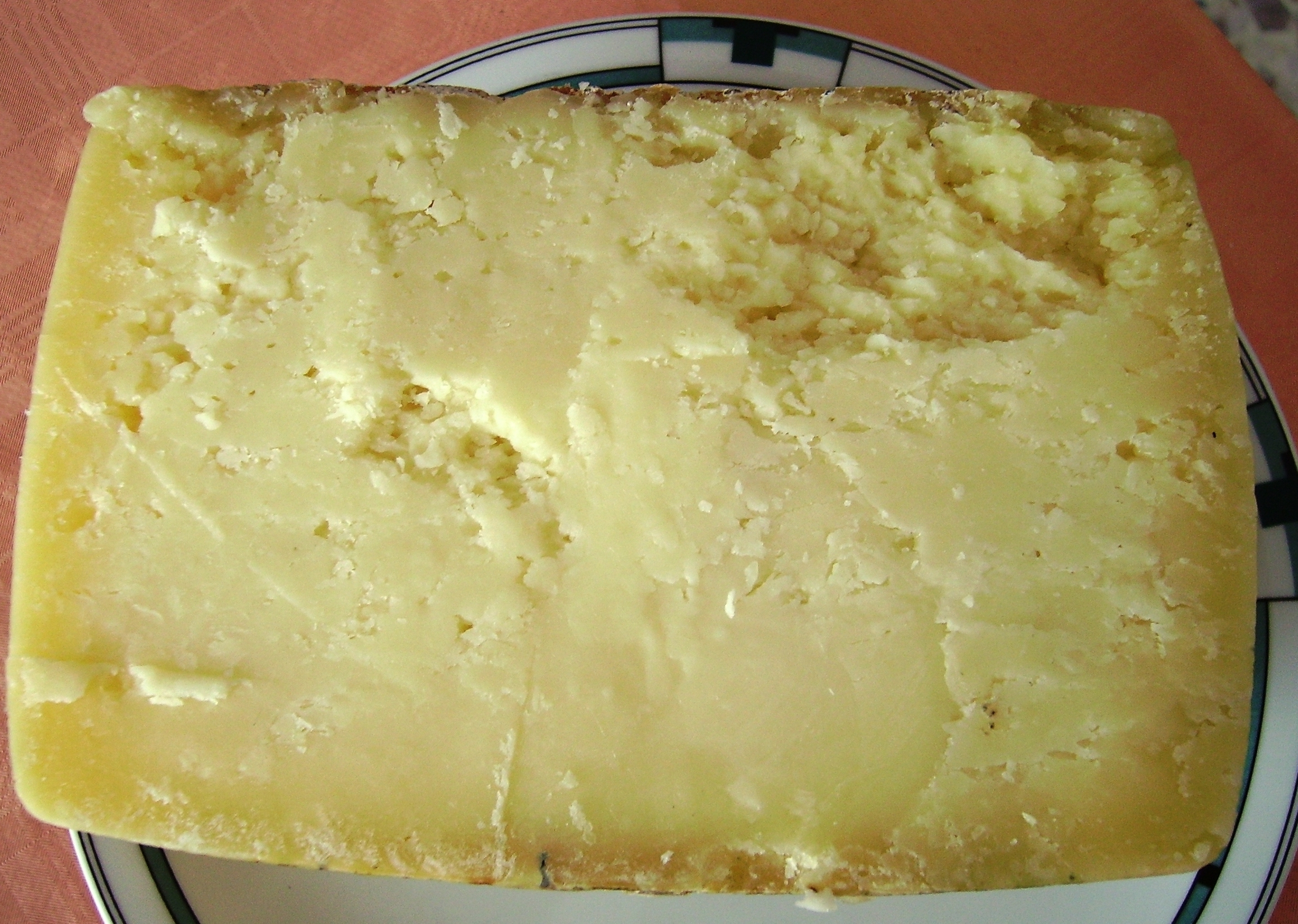 Pecorino Sardo cheese